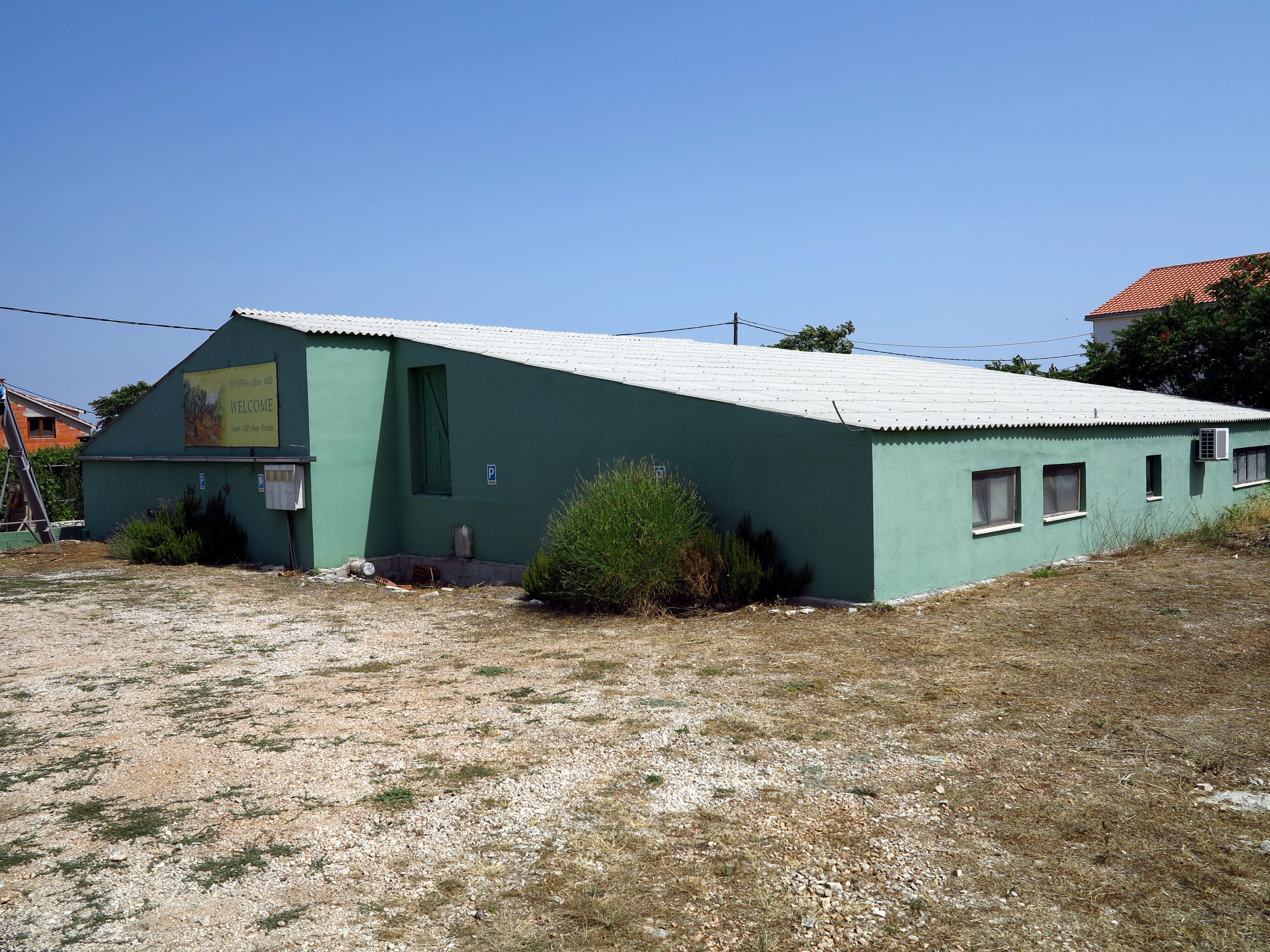 Modern Olive Oil Press in possession of the Cooperative Olynthia in Gornje Selo on the island Šolta / Croatia / Adriatic Sea.